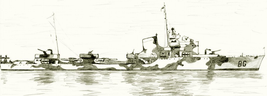 Destroyer Bersagliere, Soldati class, Italy